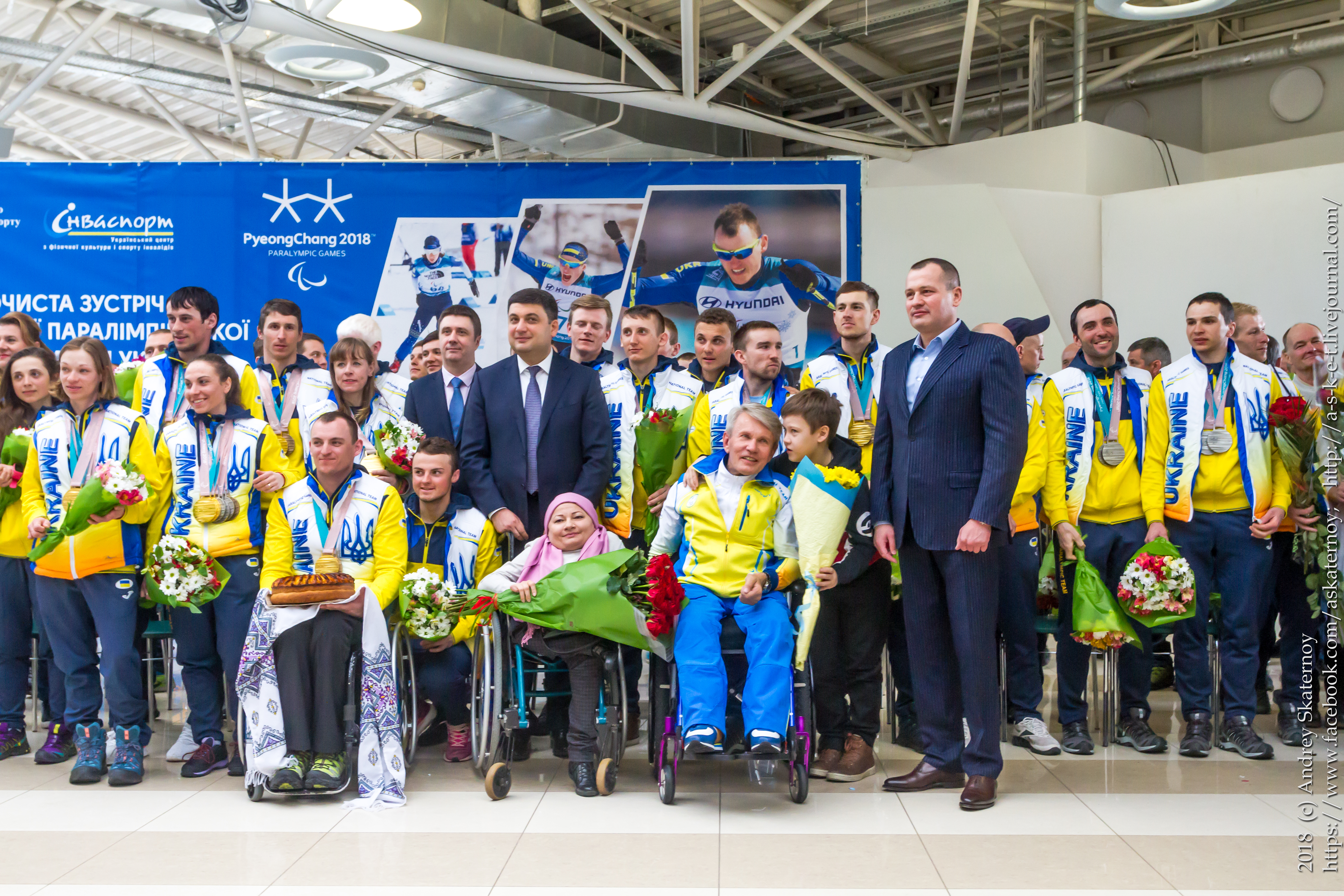 The solemn meeting of the Ukrainian Paralympic Team. Kiev, 2018-03-20